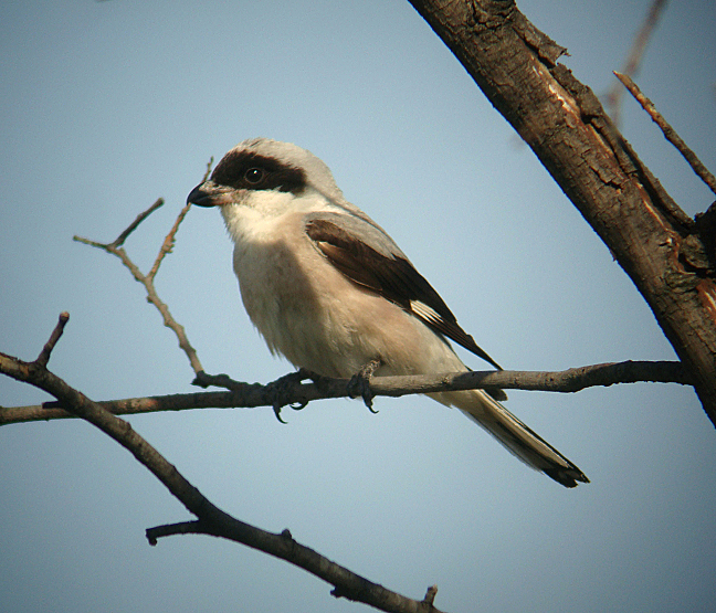 Lesser Grey Shrike (Lanius minor) at Bugyi, Hungary